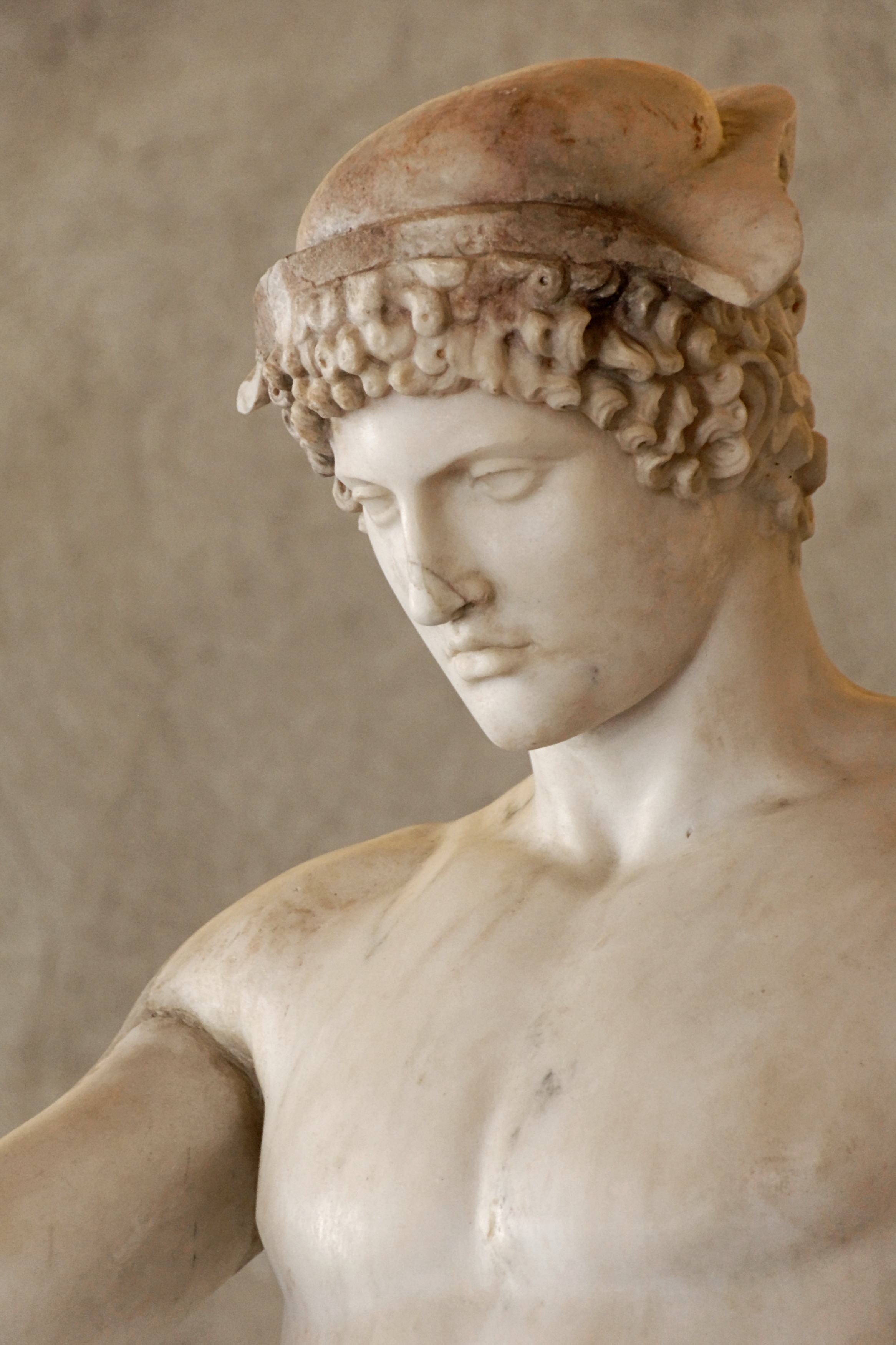 So-called “Hermes Logios” (Hermes Orator). Marble, Roman copy from the late 1st century CE-early 2nd century CE after a Greek original of the 5th century BC.